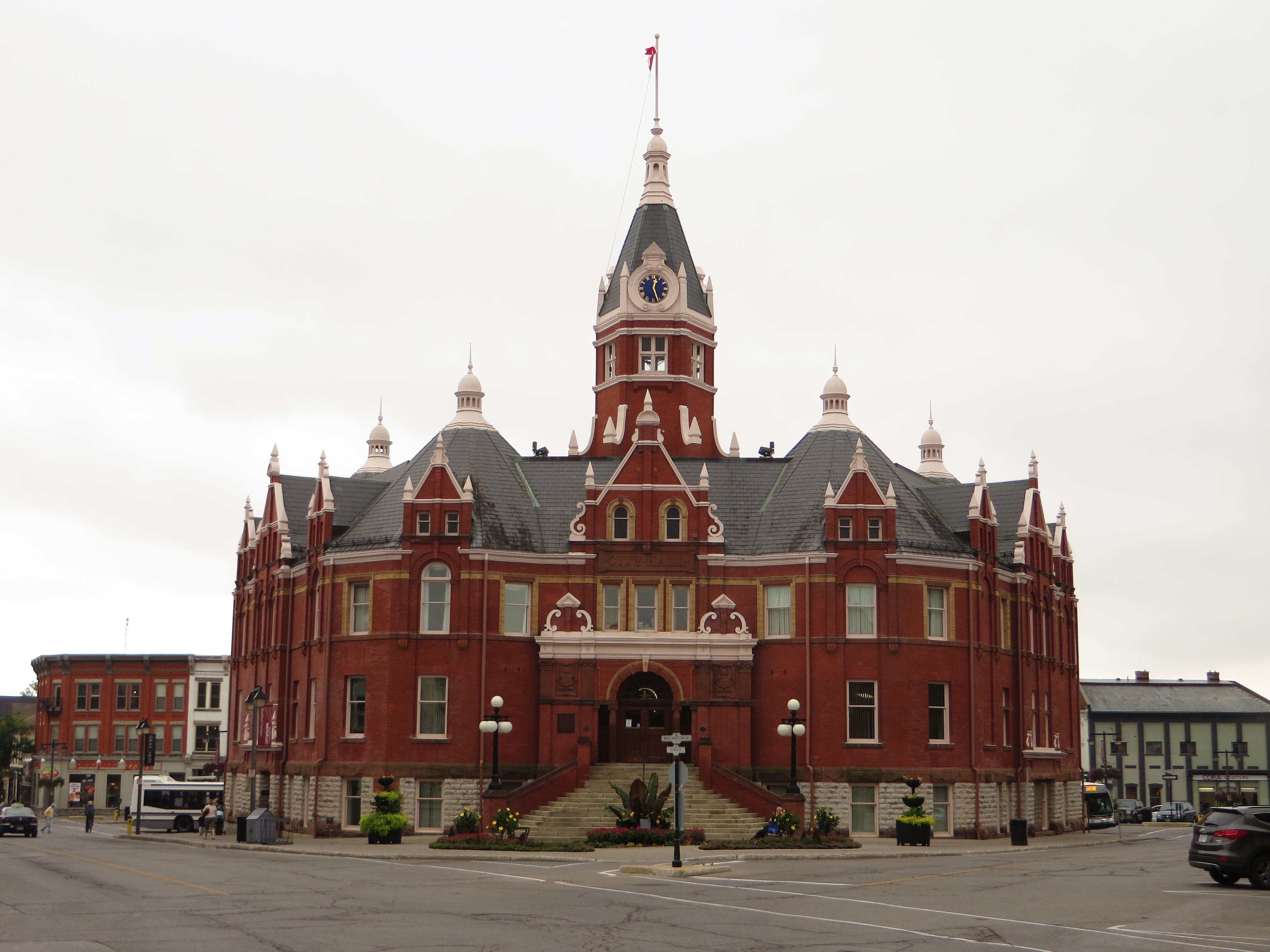 Stratford City Hall National Historic Site of Canada is prominently located on a triangular-shaped civic ‘square’ that forms the centre of the business district in Stratford, Ontario. Built at the end of the 19th century, it is a monumental town hall constructed of red brick with a prominent clock tower. Its Picturesque design incorporates an eclectic blend of late-Victorian features. The formal recognition consists of the building on its legal property. Stratford City Hall was designated a national historic site of Canada in 1976 because it is significant as a late 19th-century Picturesque civic building. Stratford City Hall reflects the development of town halls during the late-19th century, as the administrative functions of municipal government increased and cities sought to express their civic pride and ambition in impressive, large-scale buildings. Its Picturesque design, incorporating details from a variety of styles, reflects the architectural eclecticism of the late 1890s. Designed by Toronto architect George W. King, with the assistance of local architect J.W. Siddall, the building was intended to exploit its irregular site, presenting interesting façades from all angles. Its monumental scale, prominent tower and use of red brick distinguish it as a civic building.